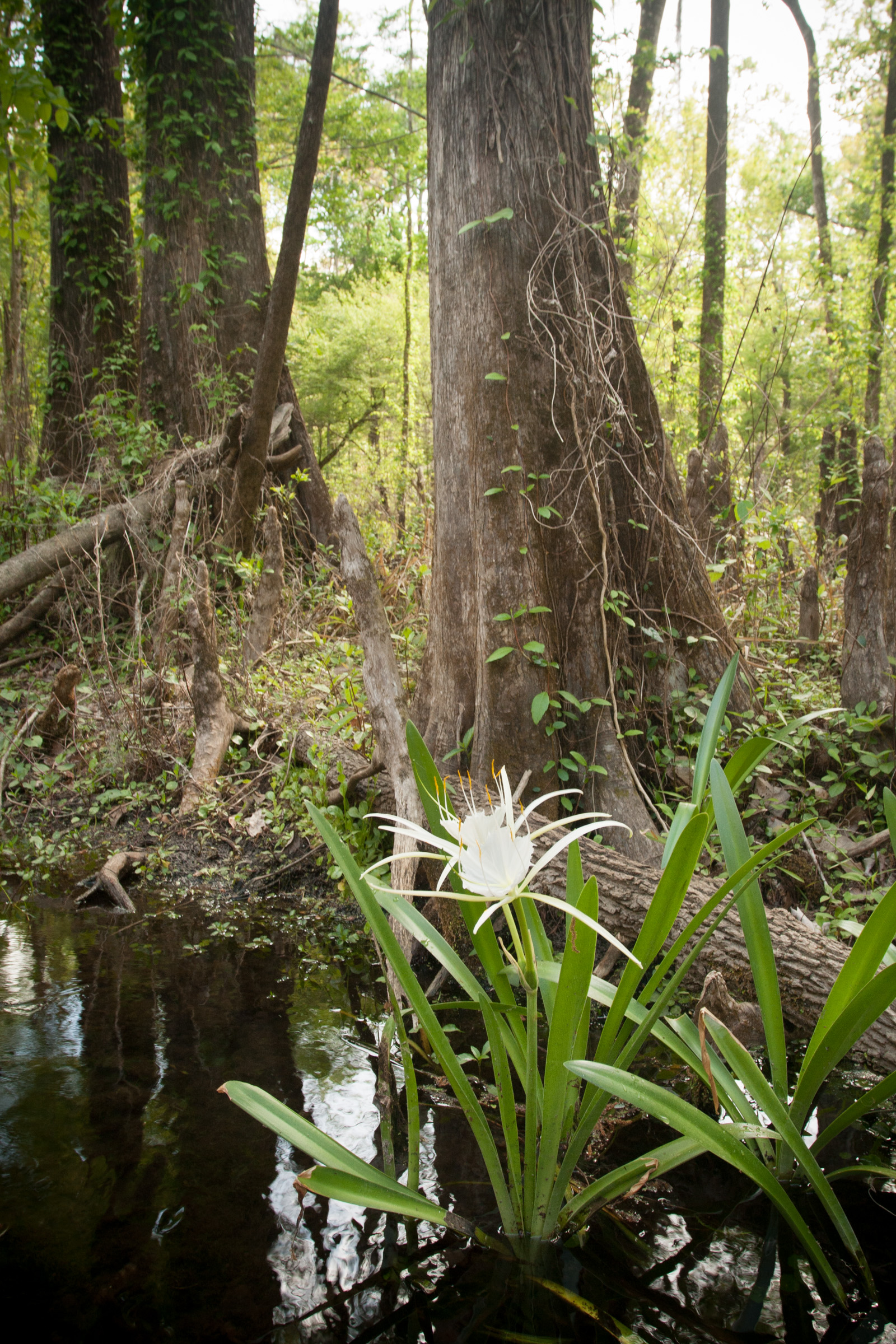 Hymenocallis rotata